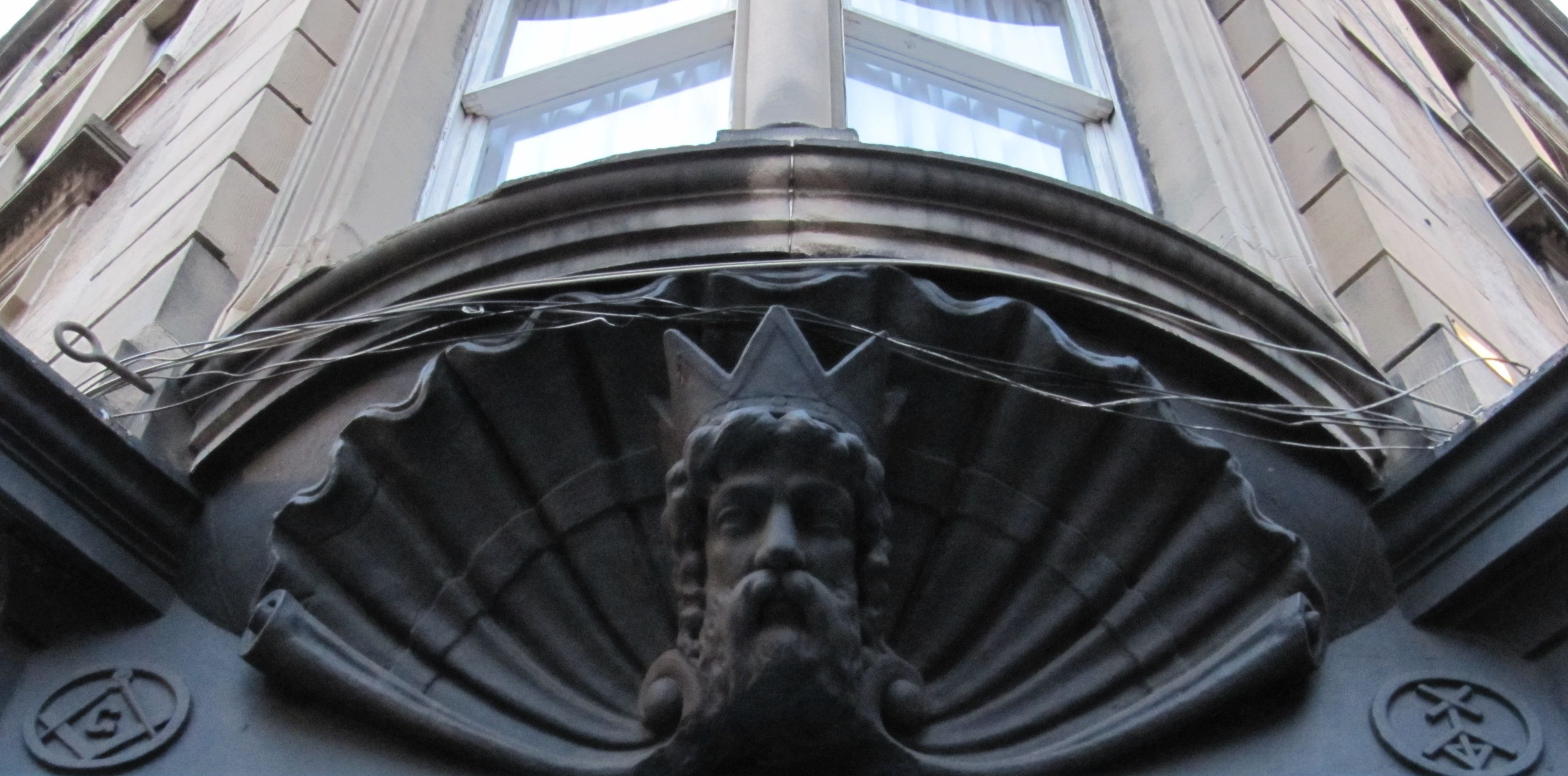 Head of Neptune on corner of Henderson Street and Great Junction Street, Leith, Edinburgh